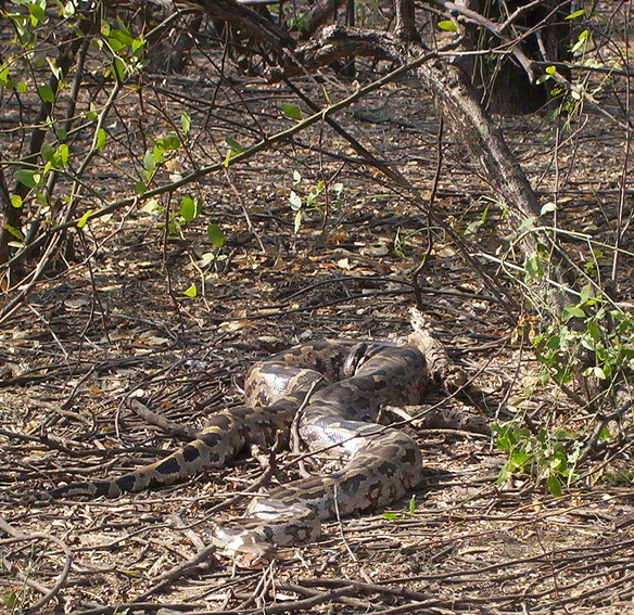 This picture was taken at Bharatpur Bird Sanctuary (Keoladeo Ghana National Park), India. This Light Phase Asian Rock Python (Python molurus molurus) was hiding in the vegetation during the afternoon.